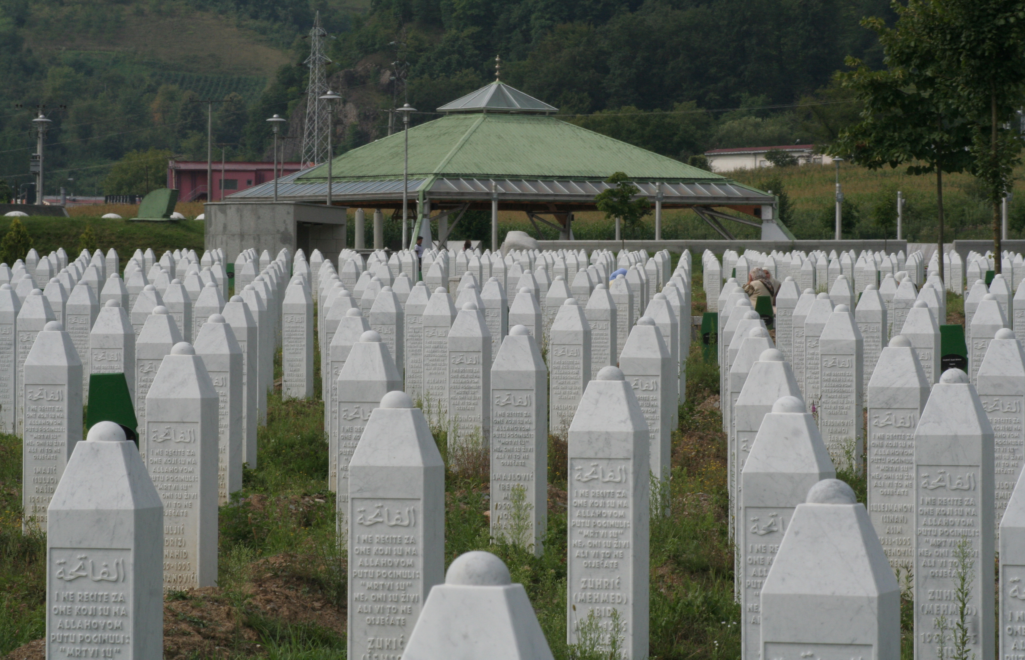 Gravestones at the Potočari genocide memorial near Srebrenica.